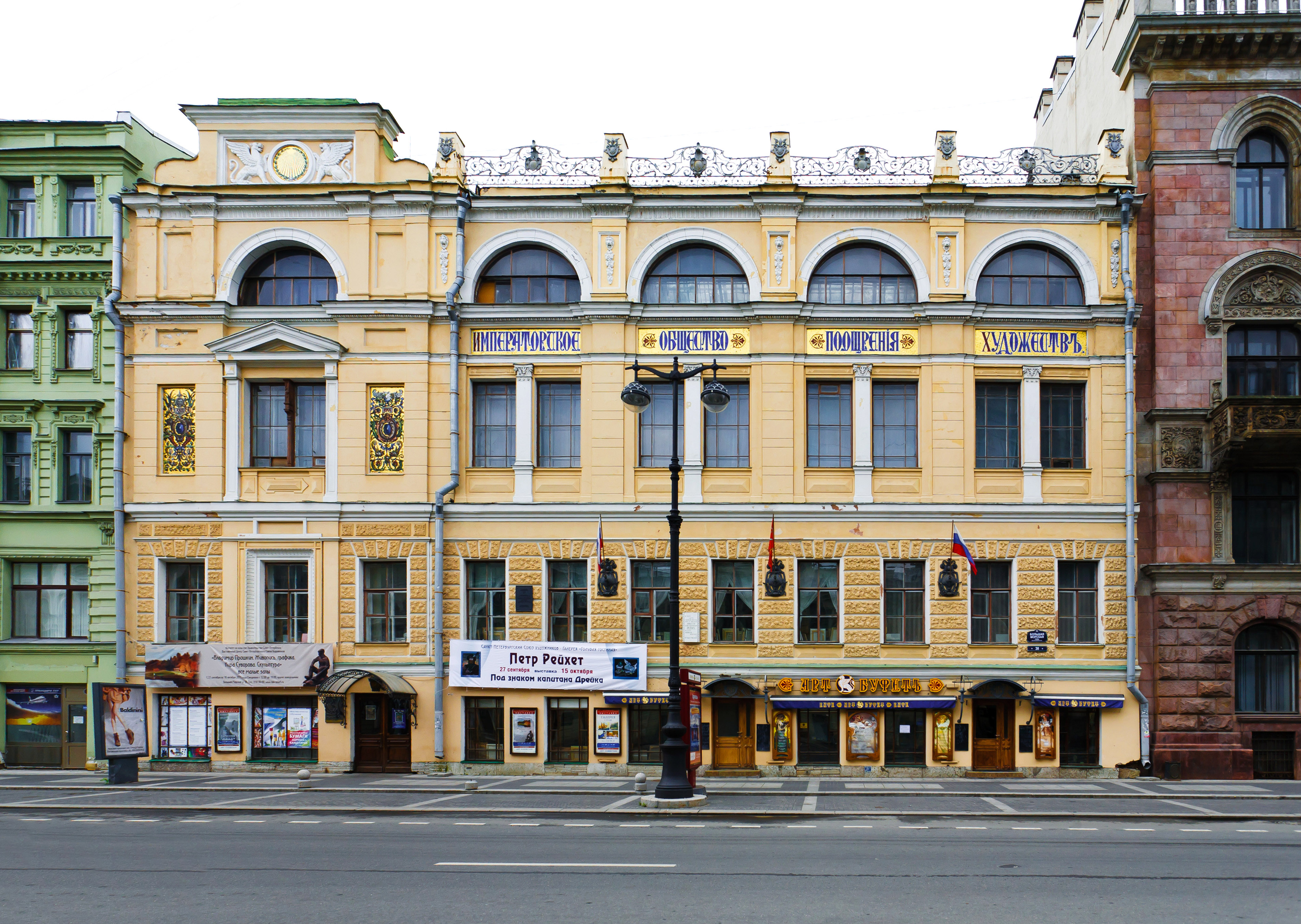 house of Imperial Society for the Encouragement of the Arts